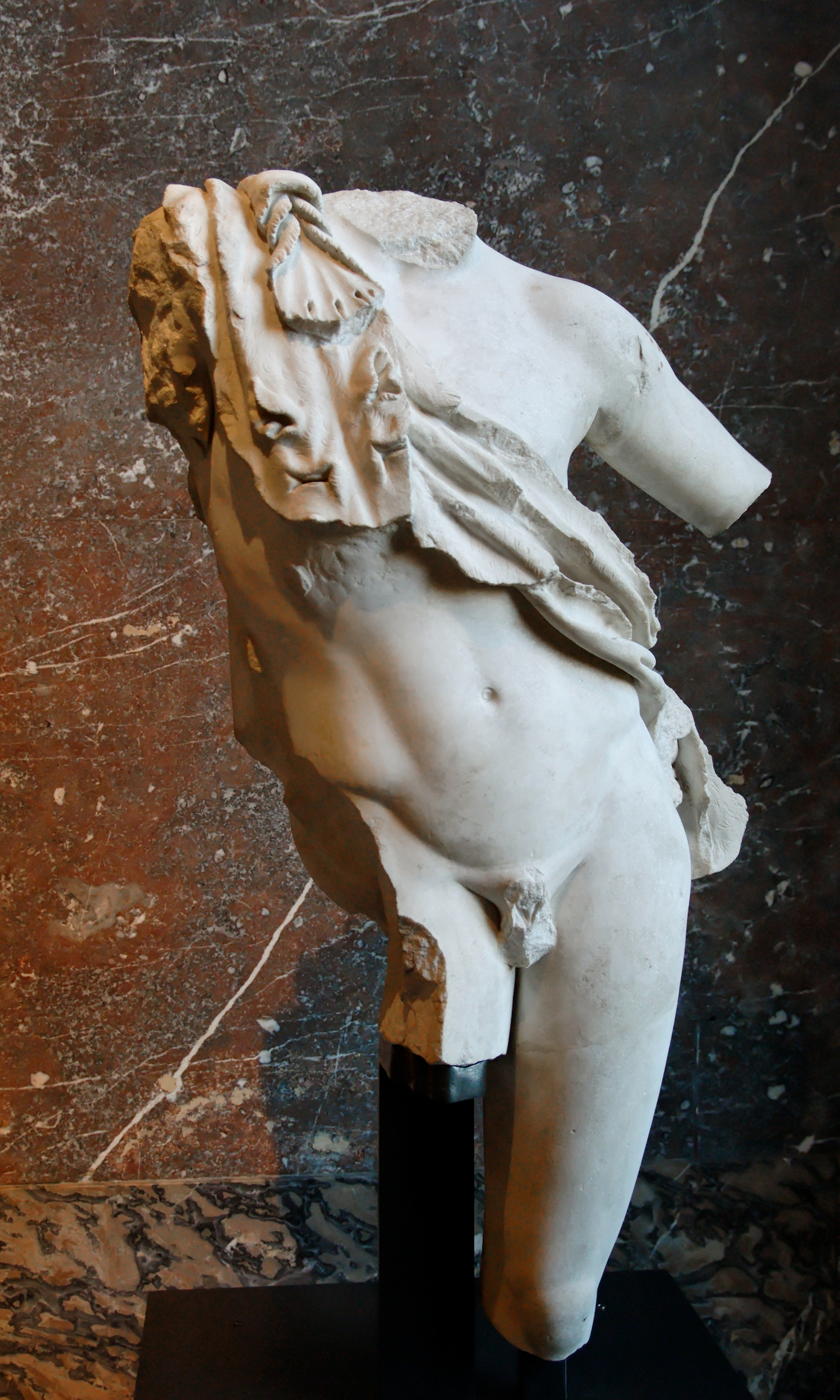 Torso of the type of the Leaning satyr. Marble, Roman copy from the reign of Domitian (81–96 AD) after a Greek original from the 4th century BC. From the Imperial Palace at the Palatine Hill, in Rome.